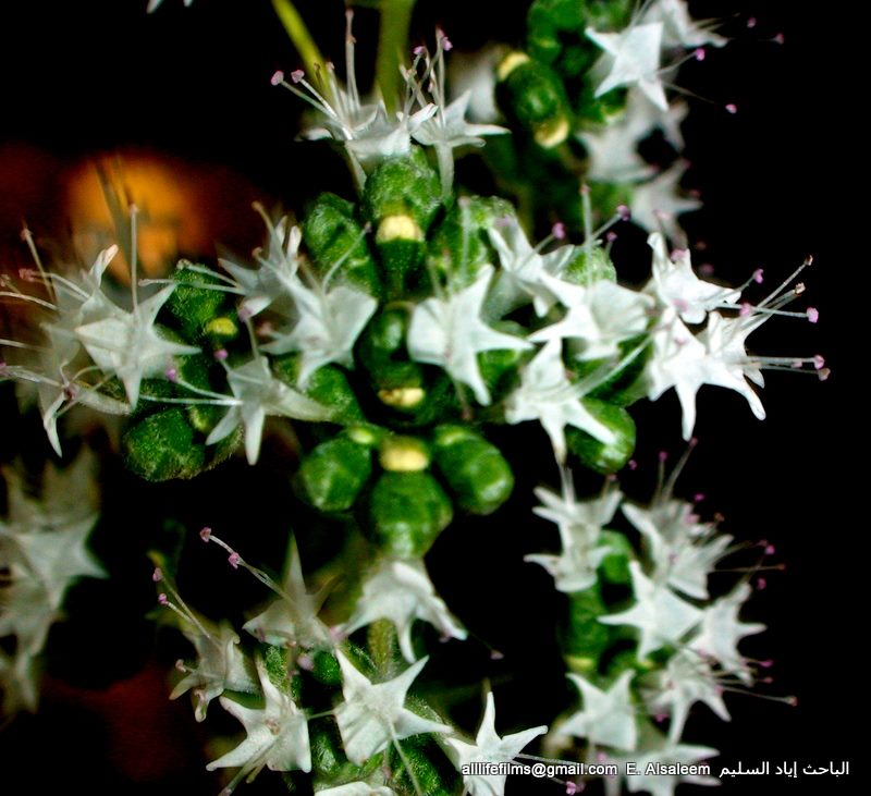 نبات برّي سوري يؤكل